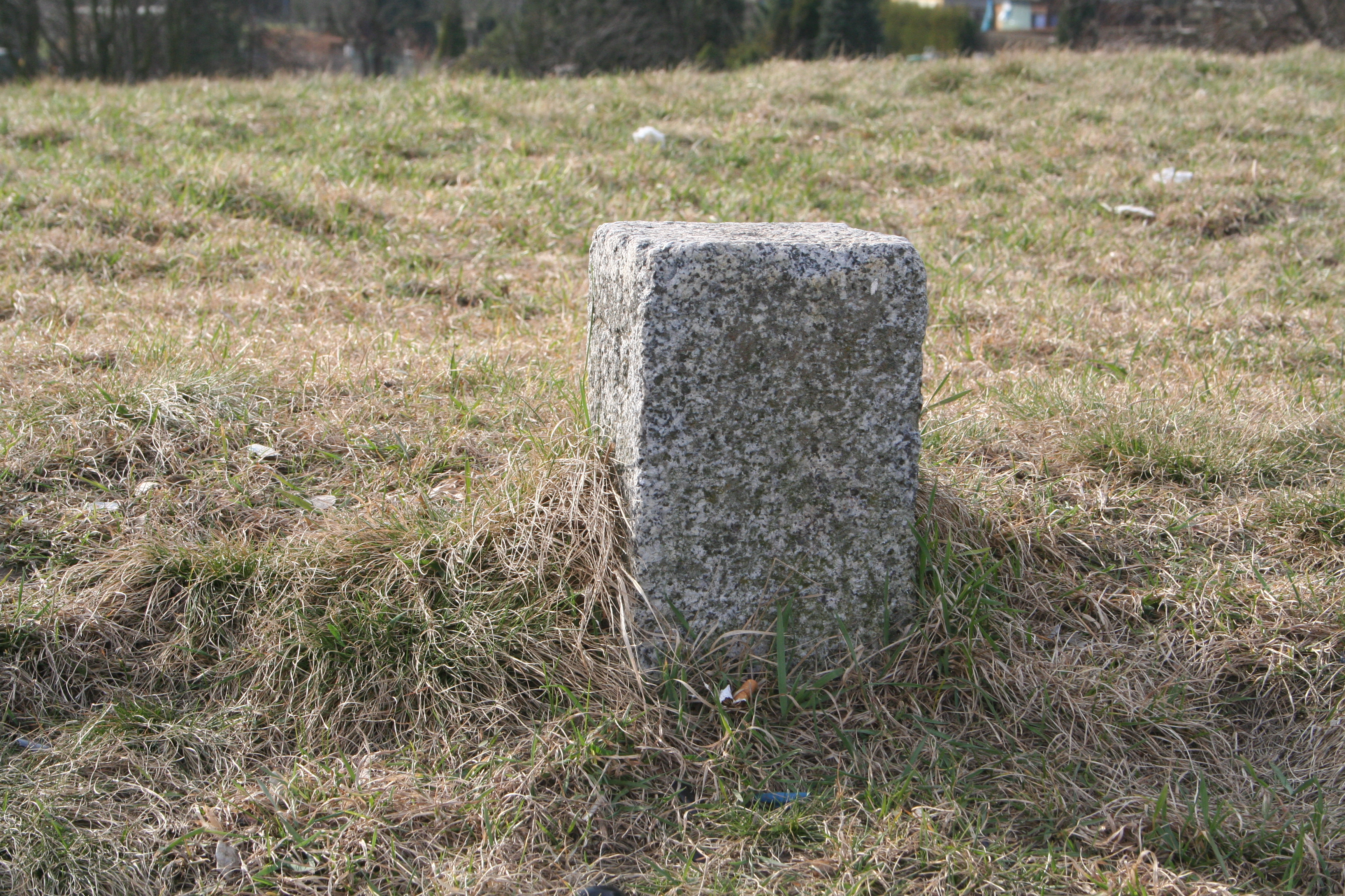 Schneiderberg, Baalberge